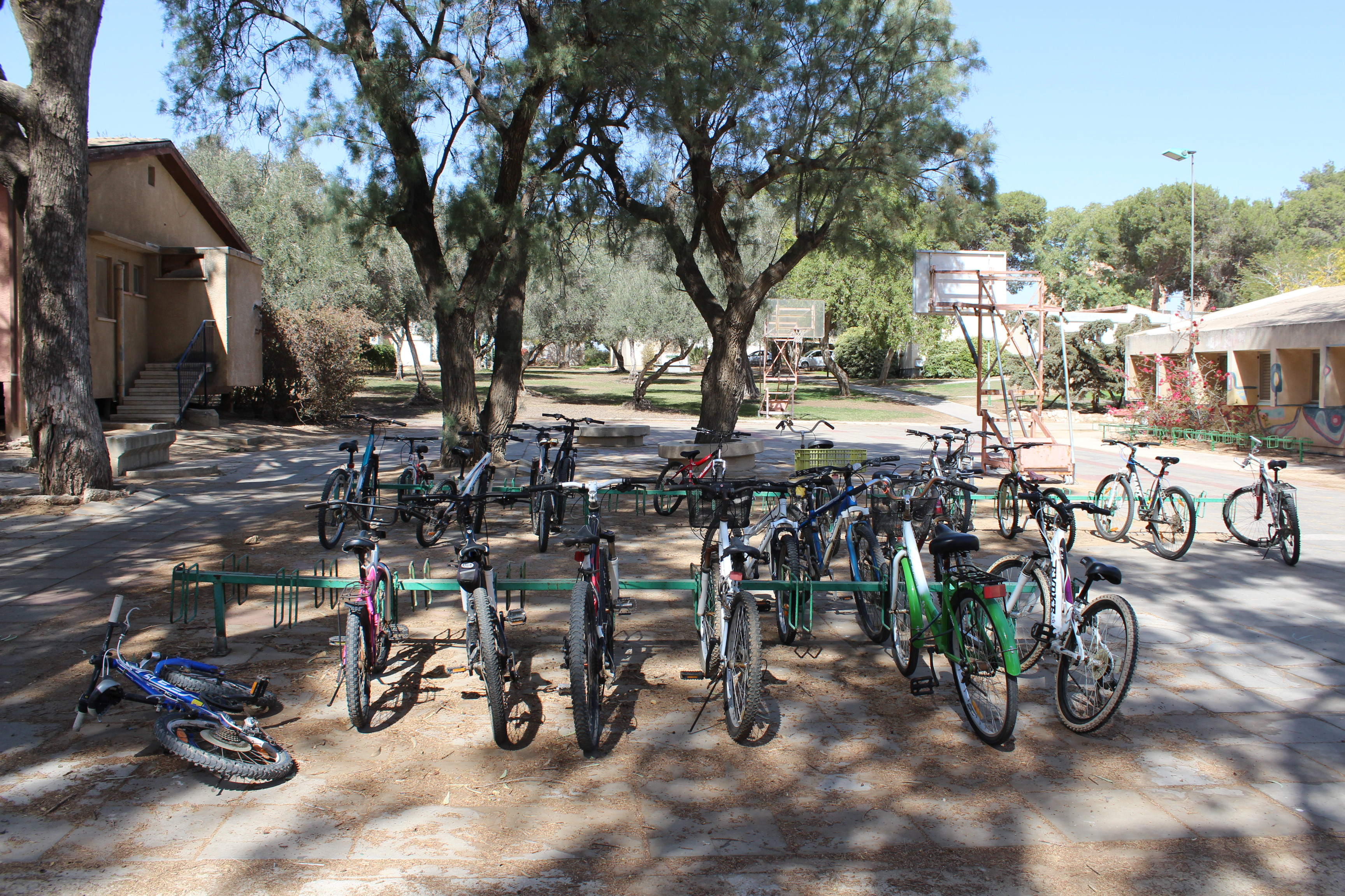 Kefar Aza Kibutz, Israel